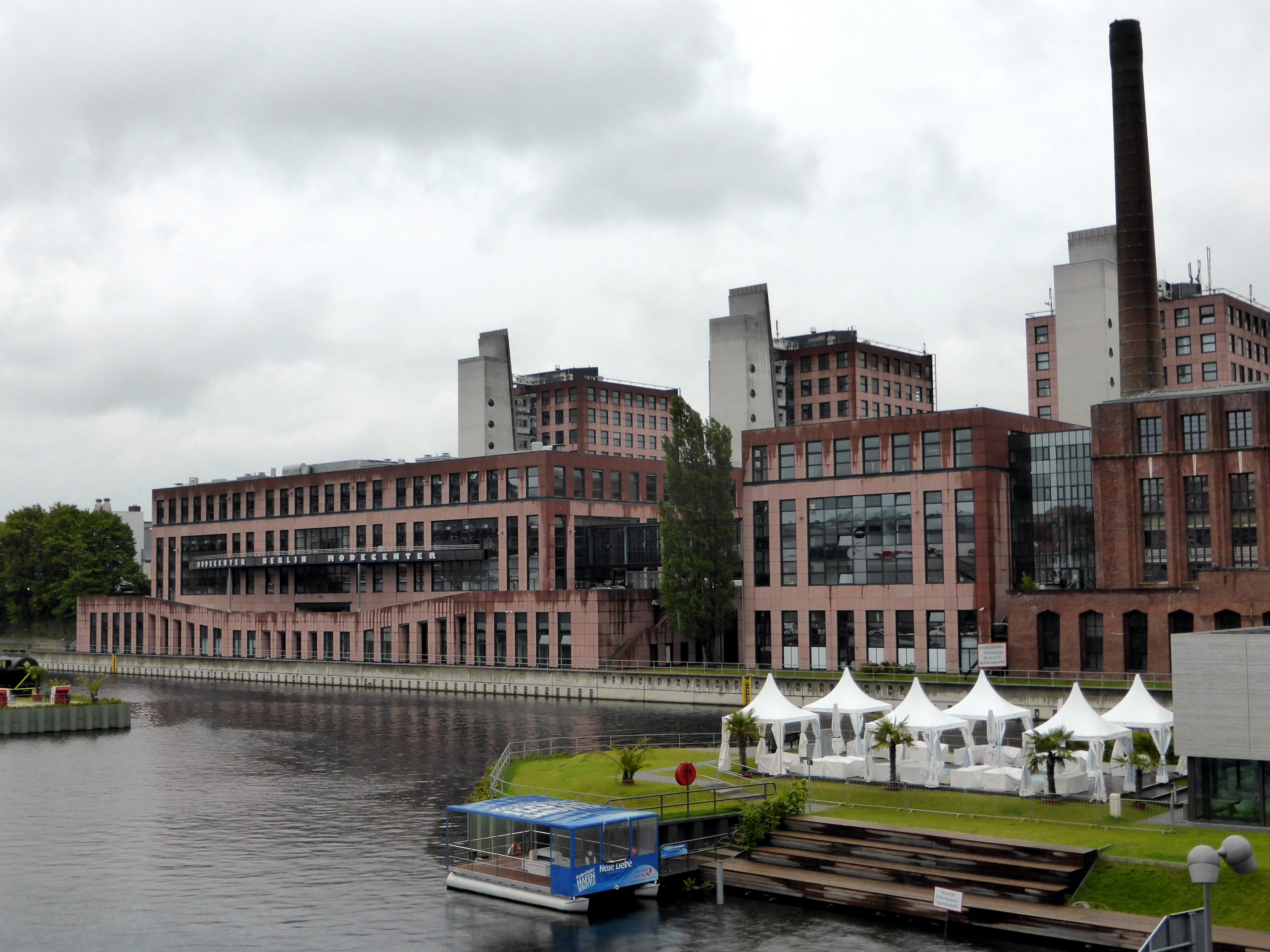 Ullsteinhaus, Berlin-Tempelhof. The modern part.